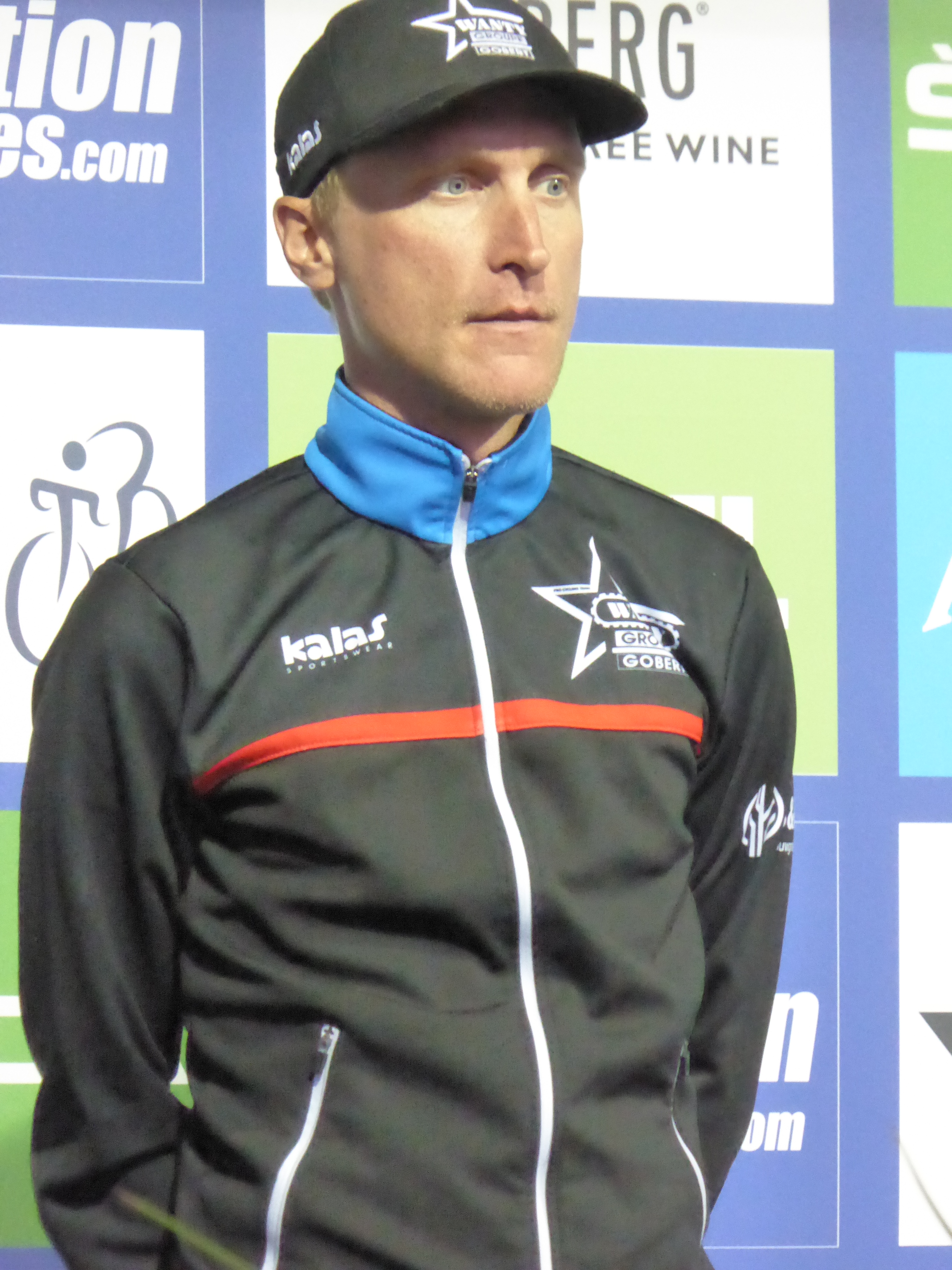 Enrico Gasparotto (Wanty-Groupe Gobert), pictured at the 2016 Tour of Britain team presentation in Glasgow on 3 September 2016.